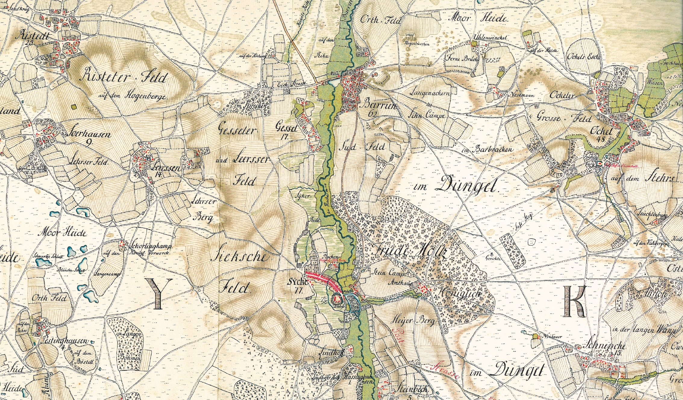 A map of the village Syke and surrounding areas, Lower Saxony, Germany. Kurhannoversche Landesaufnahme, 1773.